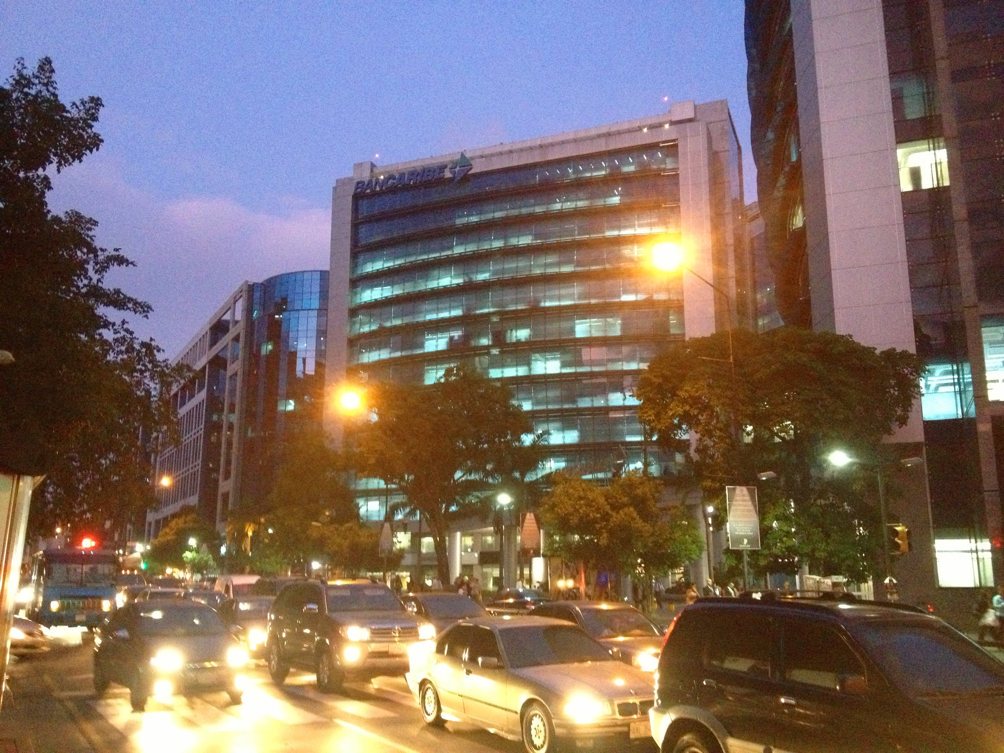 Business Center Galipan, in El Rosal, Caracas.